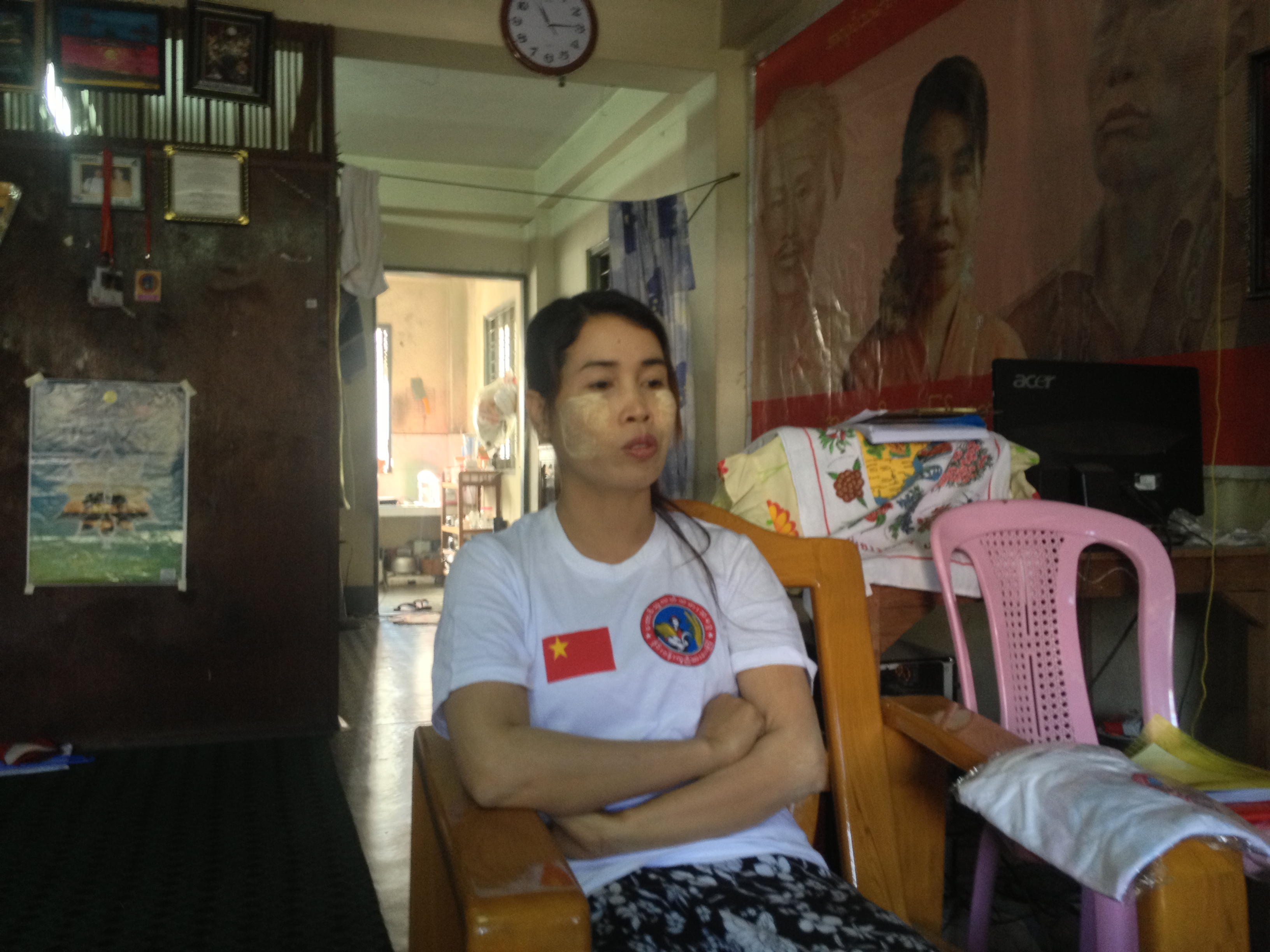 Su Su Nway posts for the photograph in her apartment in Yangon, Myanmar on 26 January 2013.